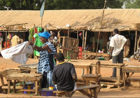 Soma, cross road town